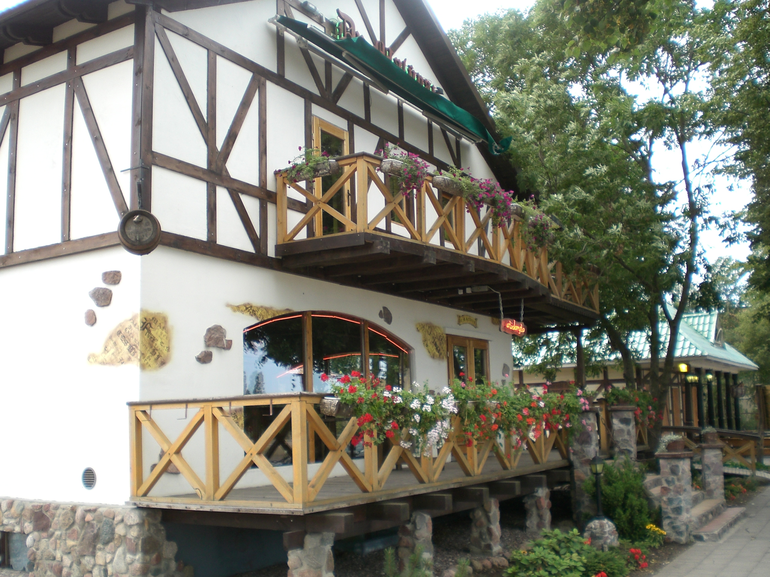 Pittoresque restaurant in the Baltic Sea resort Šventoji, 10 north of Palanga in Lithuania